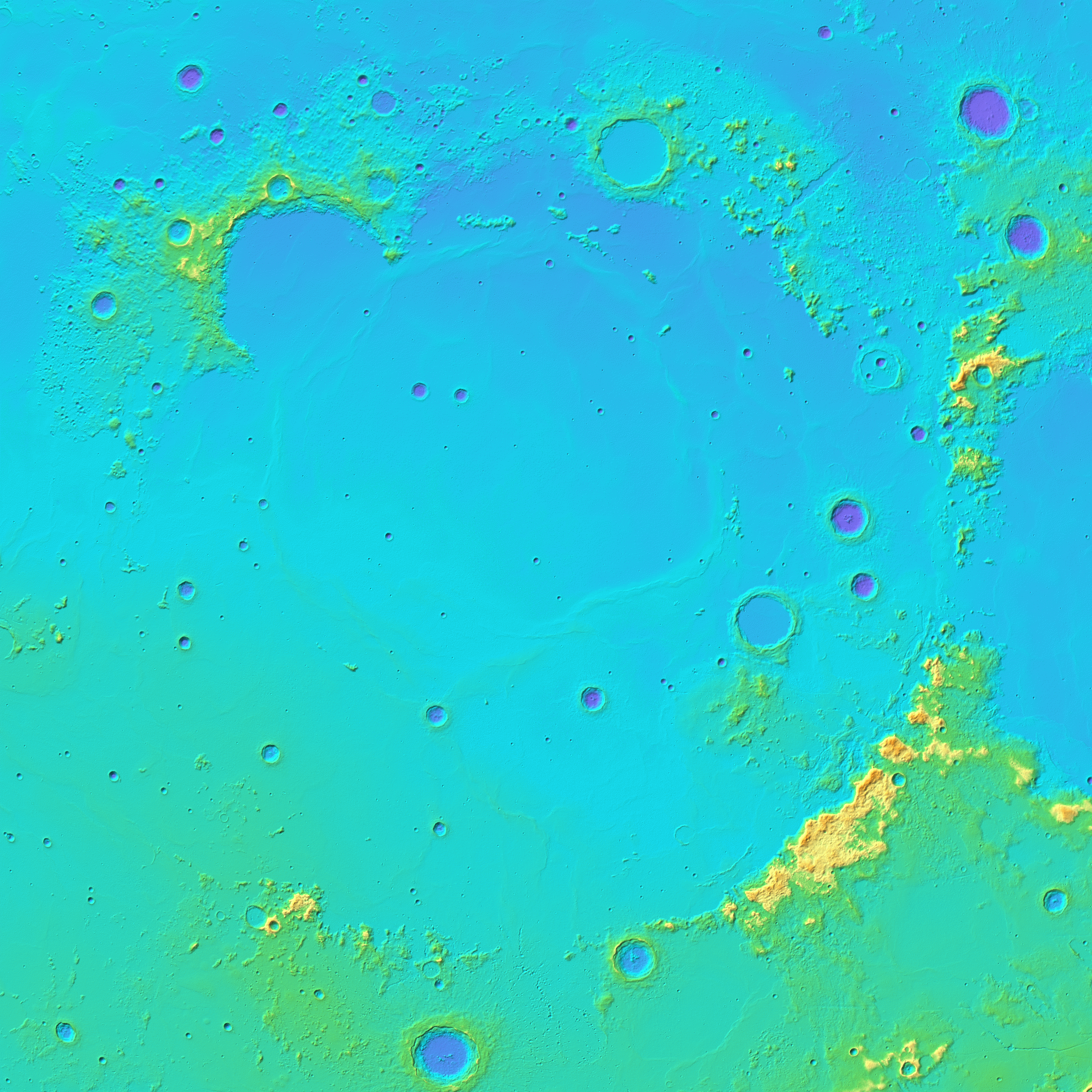 Mare Imbrium on the Moon. Topographic map (color shaded relief), based on Global Lunar DTM 100 m topographic model (GLD100), which is based on data acquired by Lunar Reconnaissance Orbiter. Size of the image is 1500×1500 km, north is up. A map in orthographic projection, centered at 34.7°N, 14.9°W (but center of the cropped piece is somewhat other). The image has the same borders and resolution as a photomosaic Mare Imbrium (LRO).png.